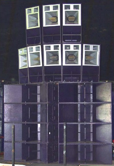 4 stack Funktion-One speaker.